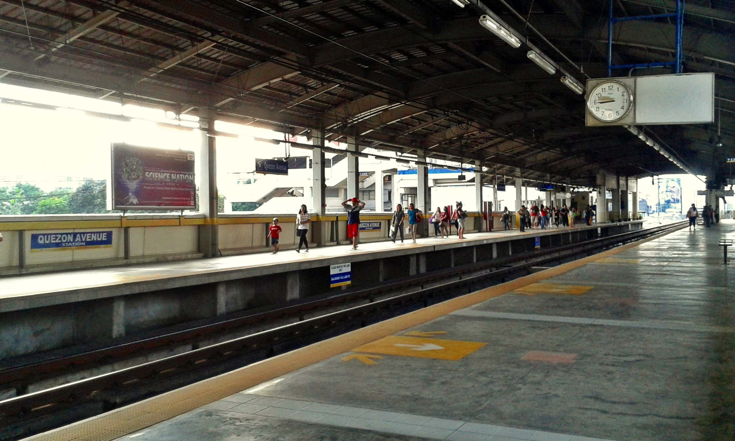 MRT-3 Quezon Avenue Station Platform Area.